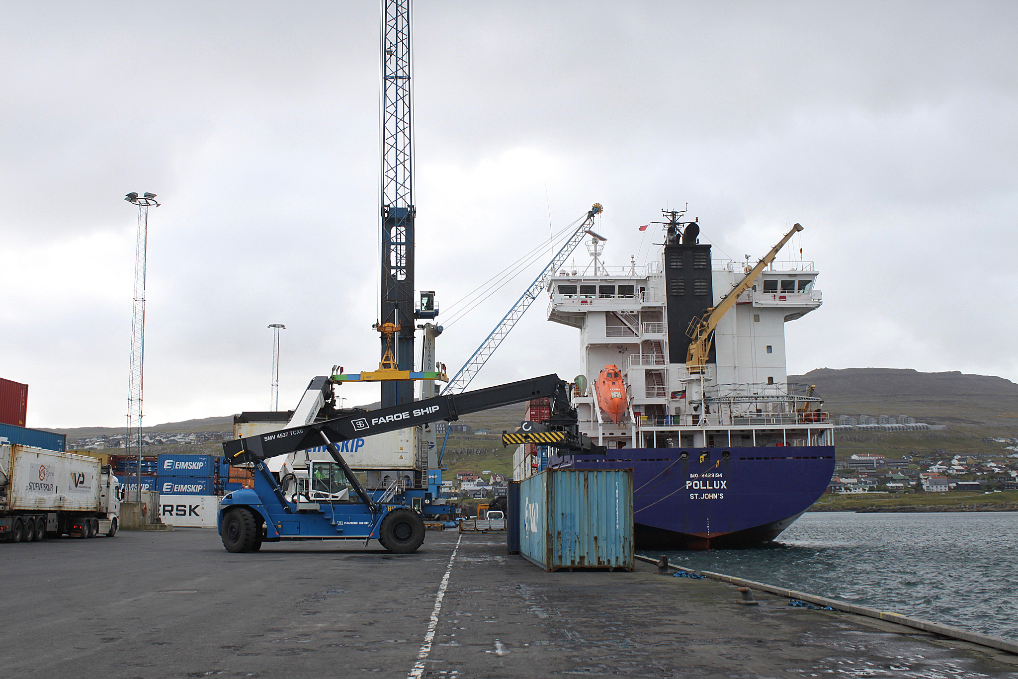 MV "Pollux" in the port of Tórshavn.